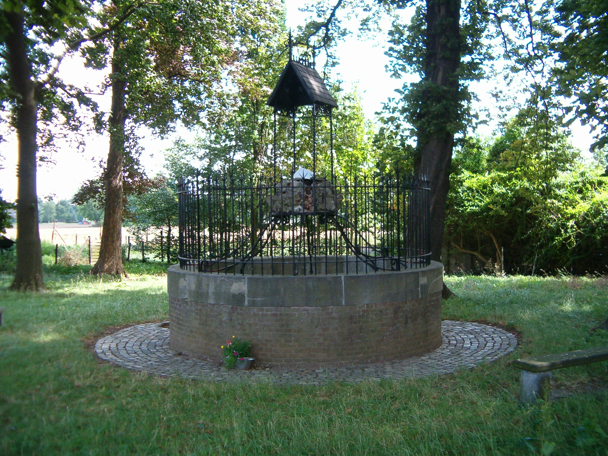 A Well in The Netherlands.